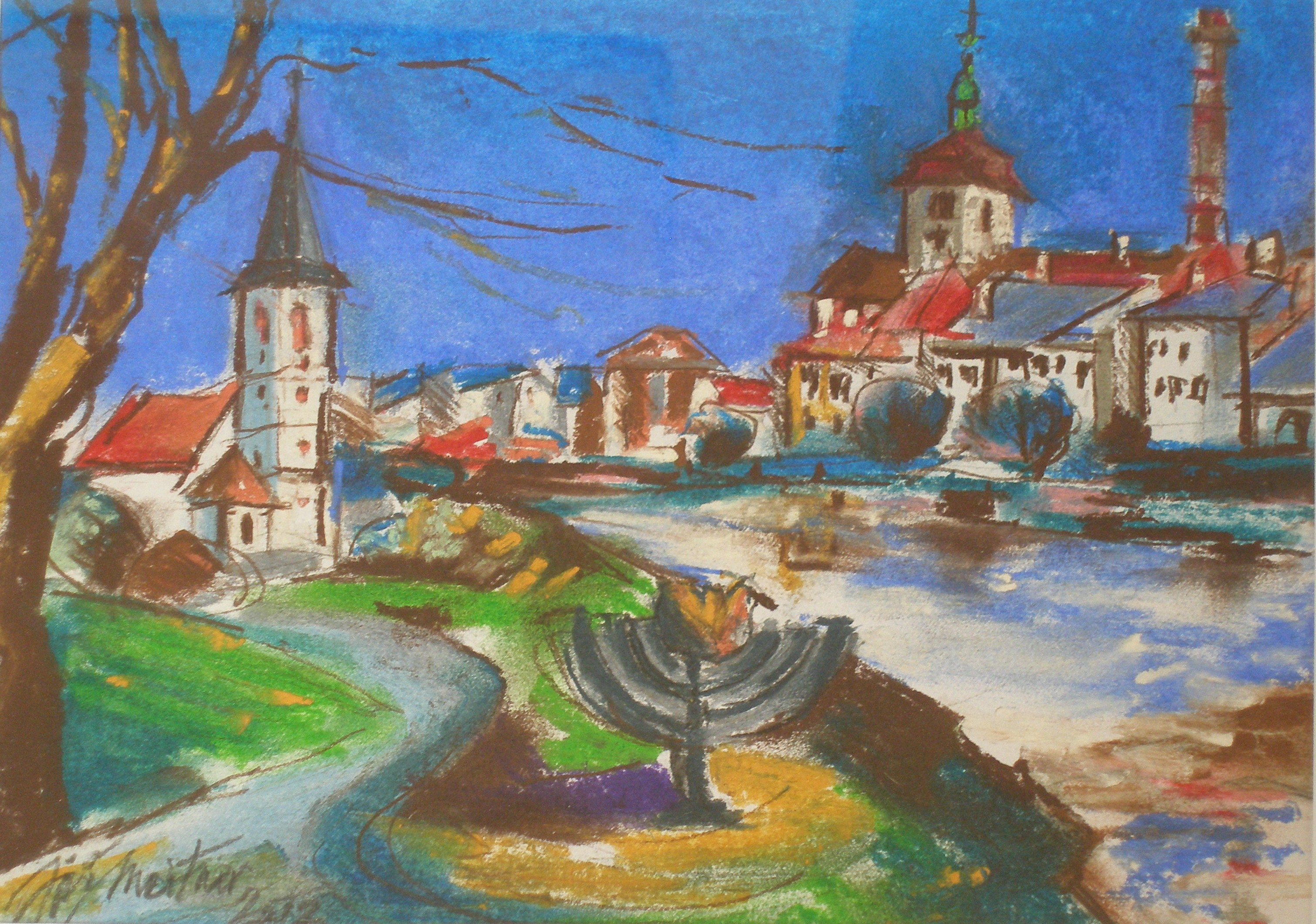 Landscape with Menorah of Strakonice, Jiří Meitner, 2012, Otava river, Strakonice Castle, Church of St. Margaret, Church of St. Prokop, Holocaust Memorial Strakonice in Art